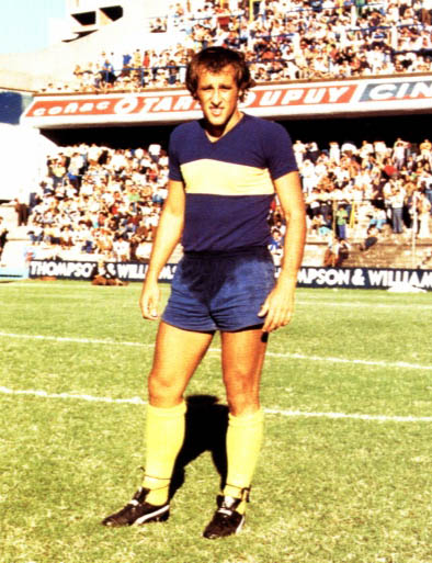 Roberto Mouzo while playing for Boca Juniors.